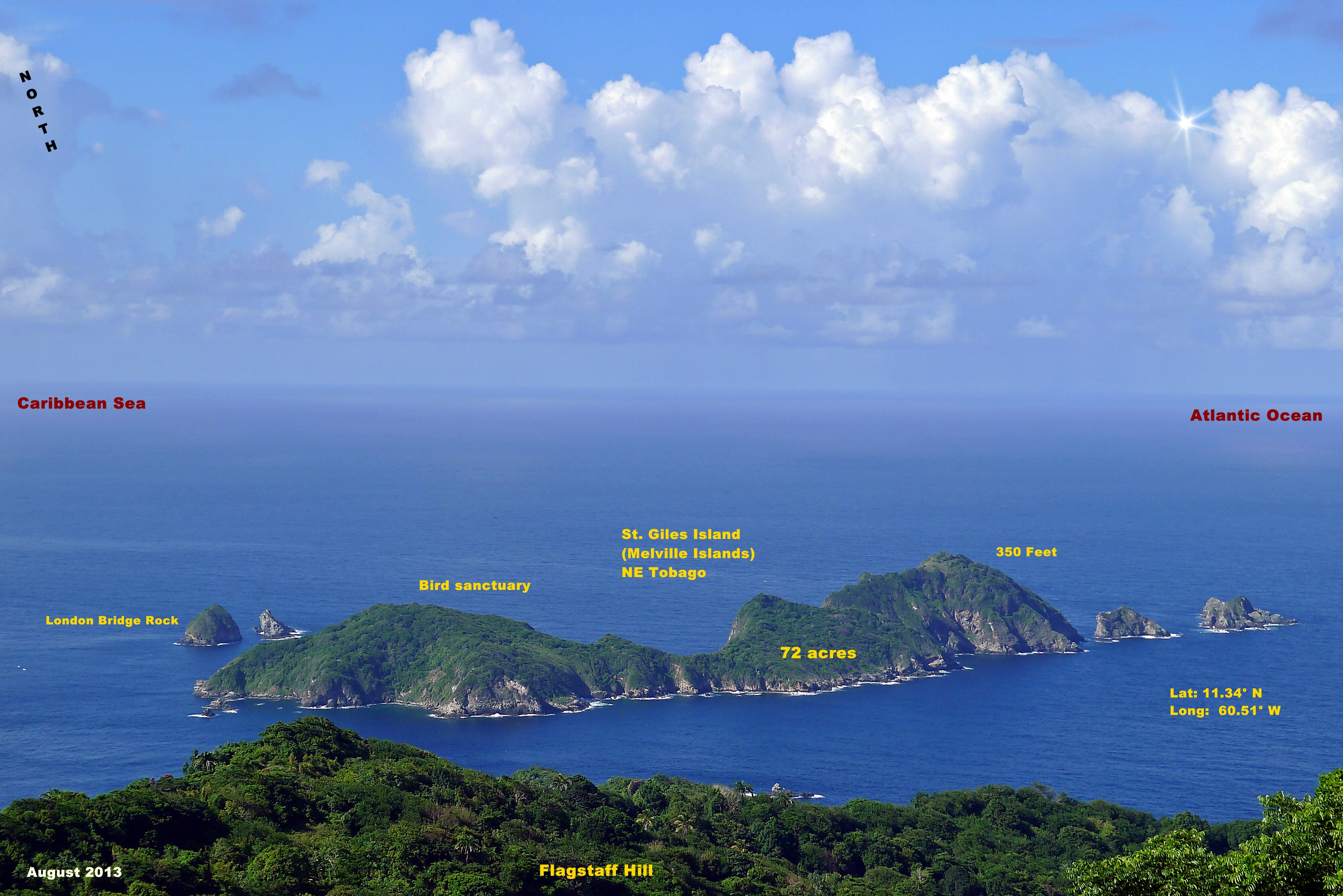 St. Giles Island - Northernmost land area of Trinidad and Tobago, West Indies. Protected bird sanctuary. Scuba diving nearby.